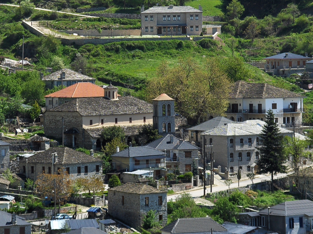 Skamneli village centre with the church of the Apostles.